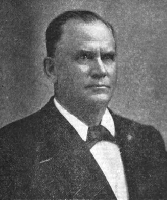 Charles Bluejacket (1816-1897), Shawnee, of Kansas, USA